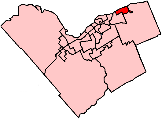 Based on a map created by Earl Andrew